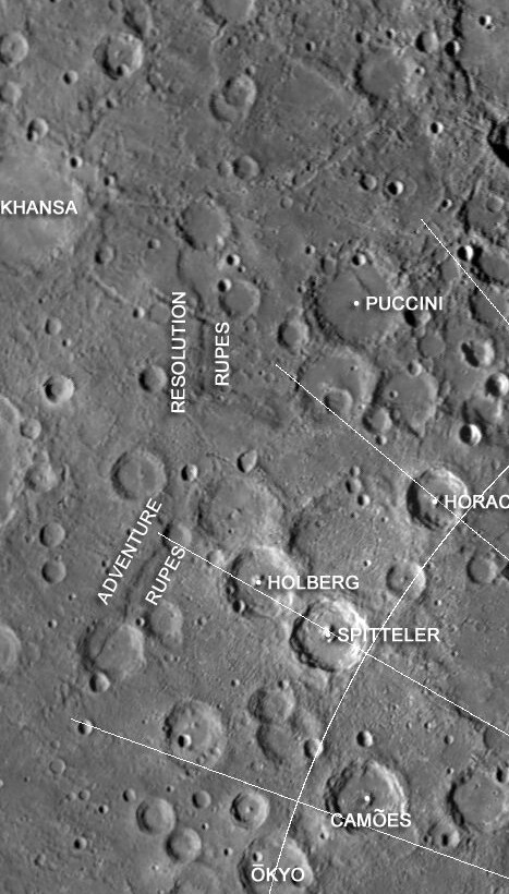 Advantage Rupes and Resolution Rupes on Mercury. They may be parts of of one large structure separated by a latter formed ridge.